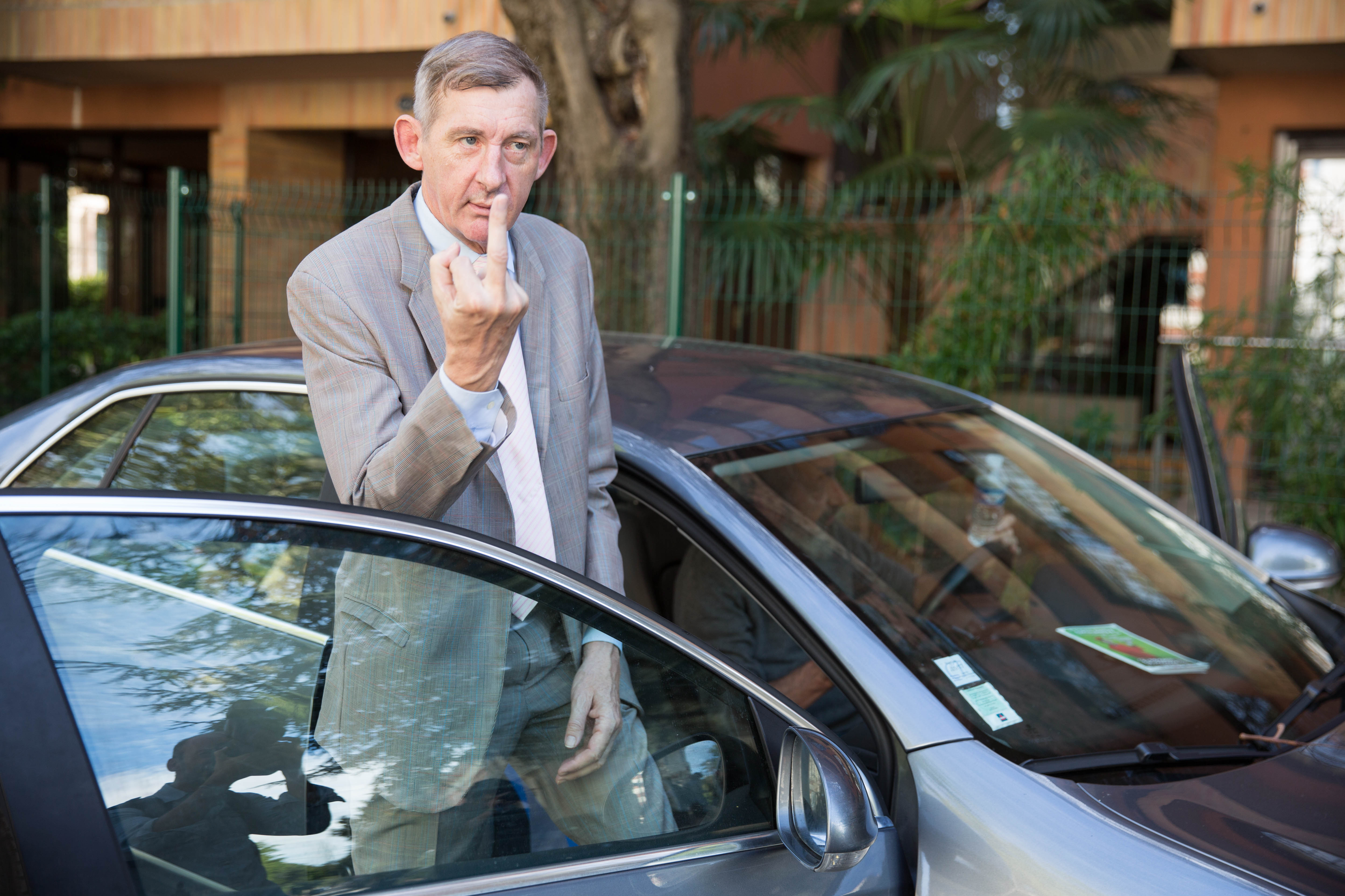 Christophe Salengro in Toulouse